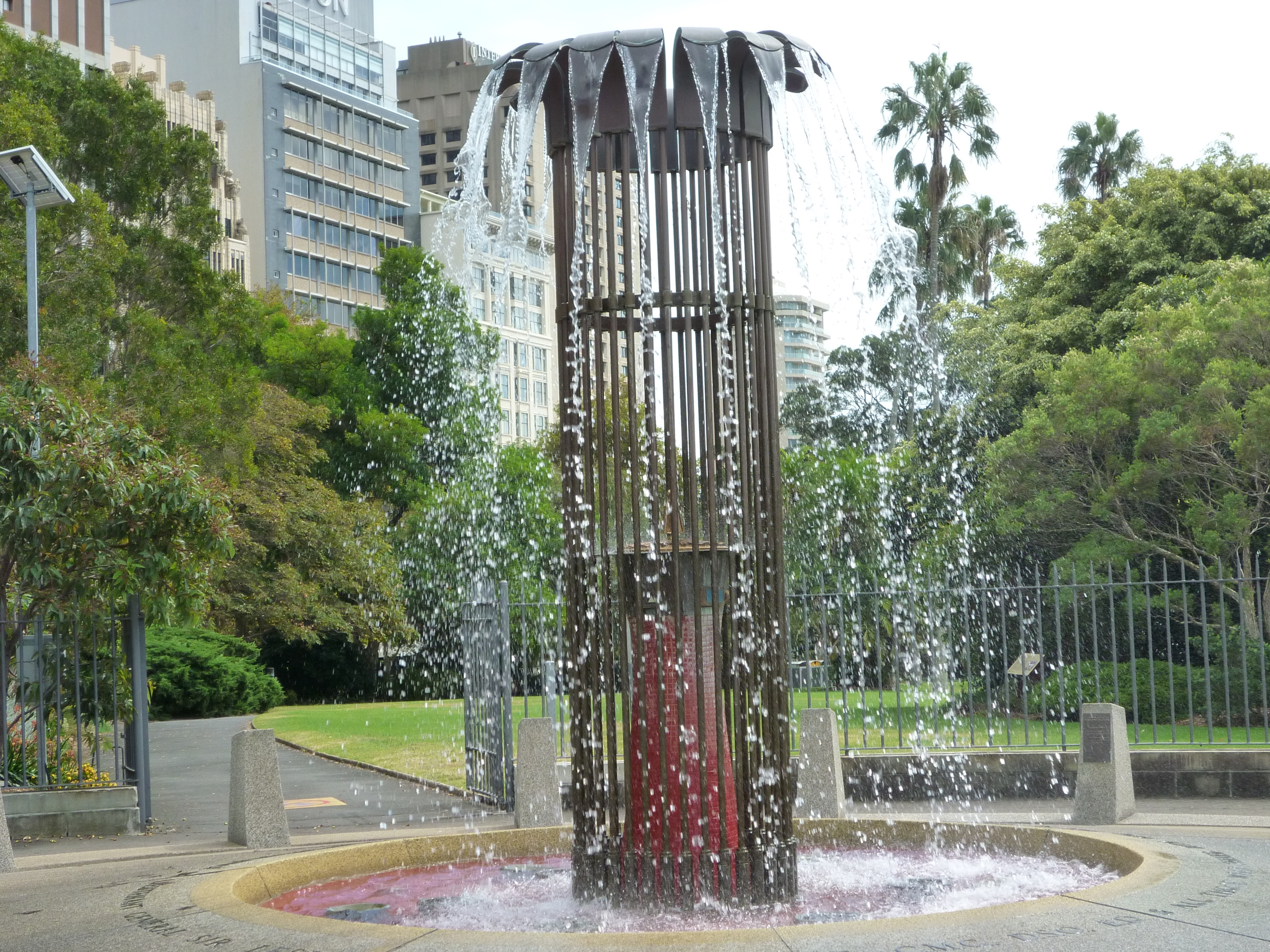 Memorial Fountain erected in remembrance of Lieutenant General Sir Leslie Morshead